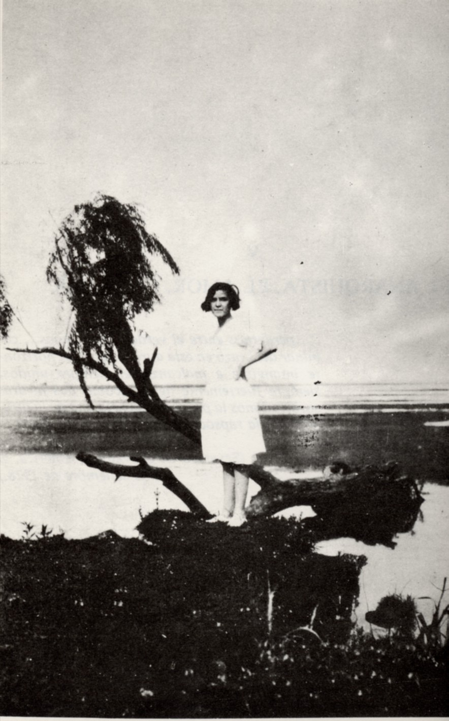 América Scarfó, aka Fina, posing for Severino Di Giovanni at San Isidro, north of Buenos Aires.